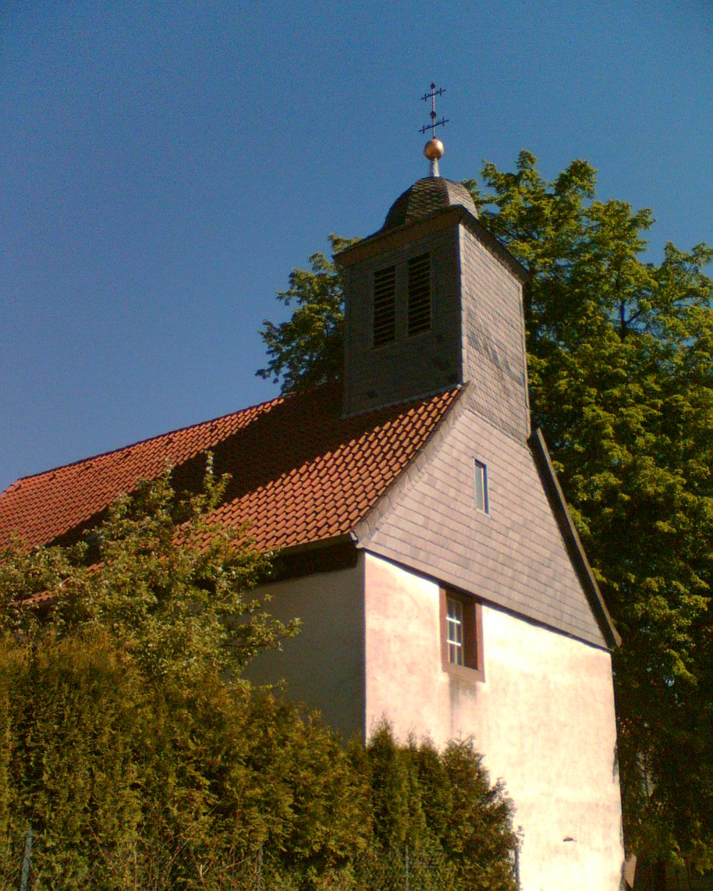 church in Amelsen, Germany